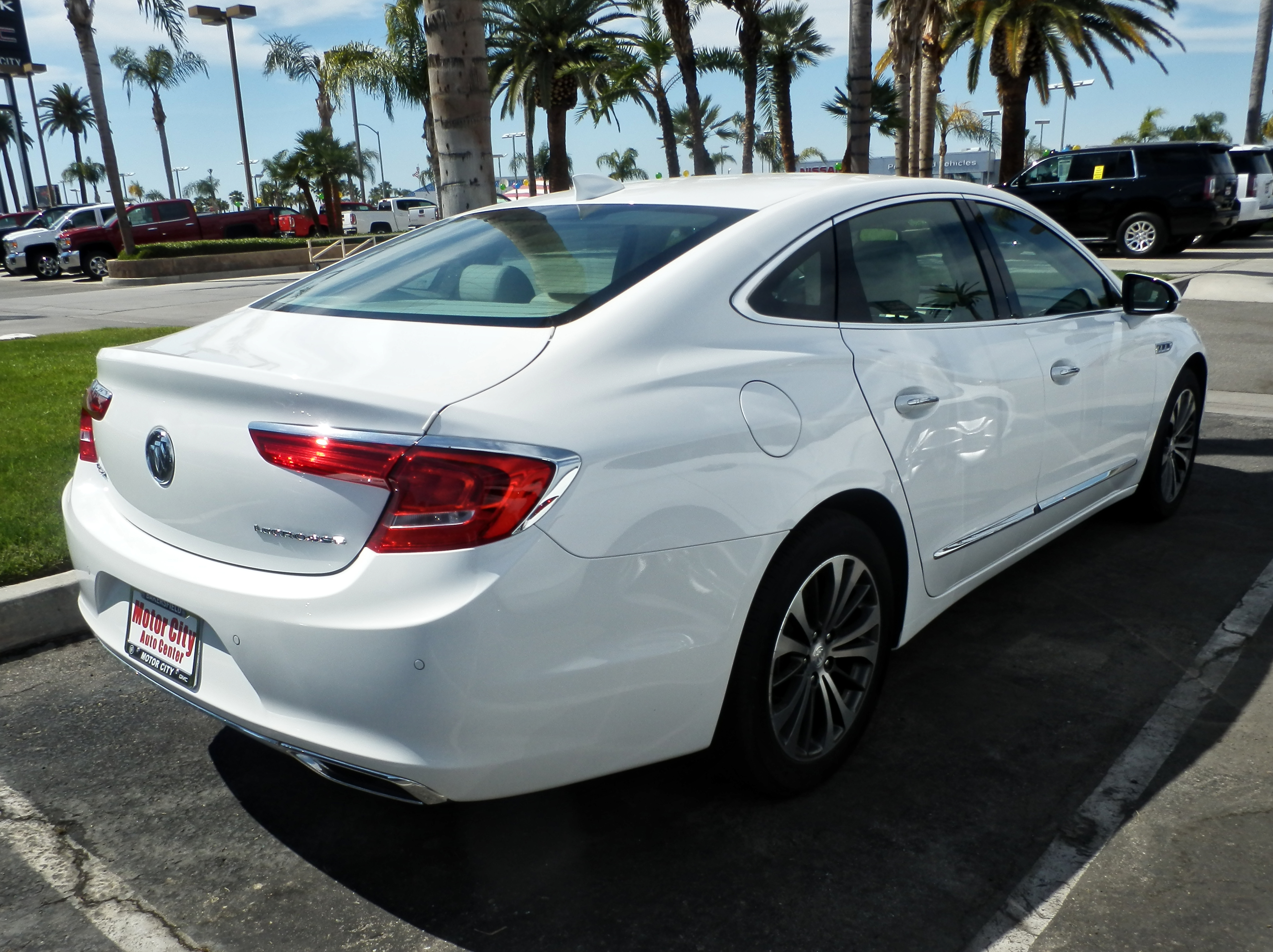 Buick LaCrosse in Bakersfield